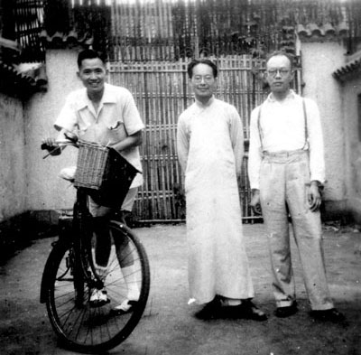 周有光（1906年1月13日－），原名周耀平，生于中國江苏常州，中国语言学家、文字学家，通晓汉、英、法、日四种语言。中国语言学家。此图是1946年，顾传、沈从文和周有光的合照。